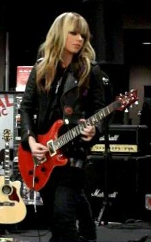 Orianthi performing live